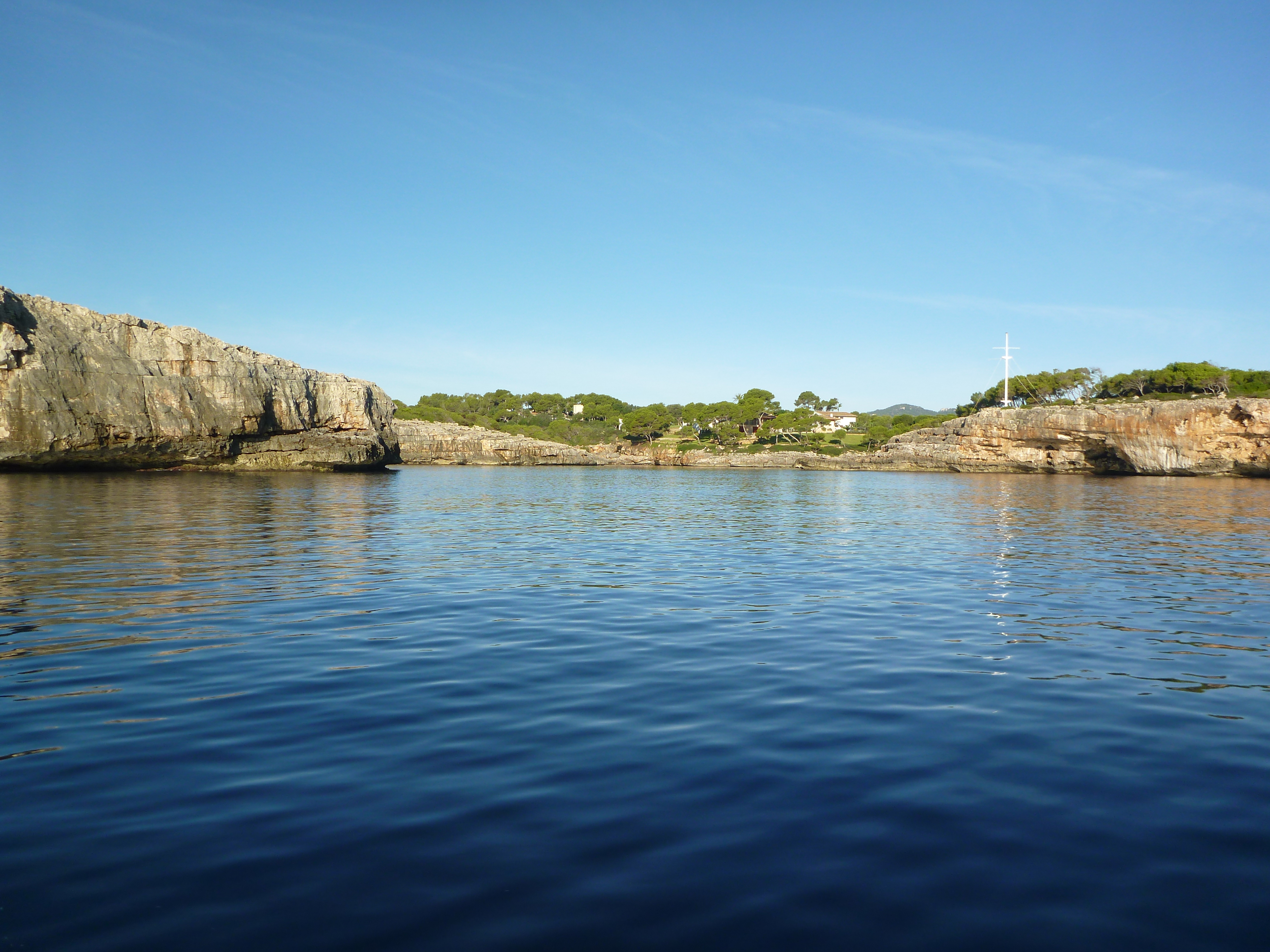 View from sea to Cala sa Nau